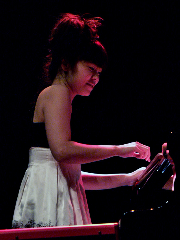 Hiromi (上原ひろみ) at moers festival 2007 self made/own work, may 28, 2007 photo: nomo/michael hoefner